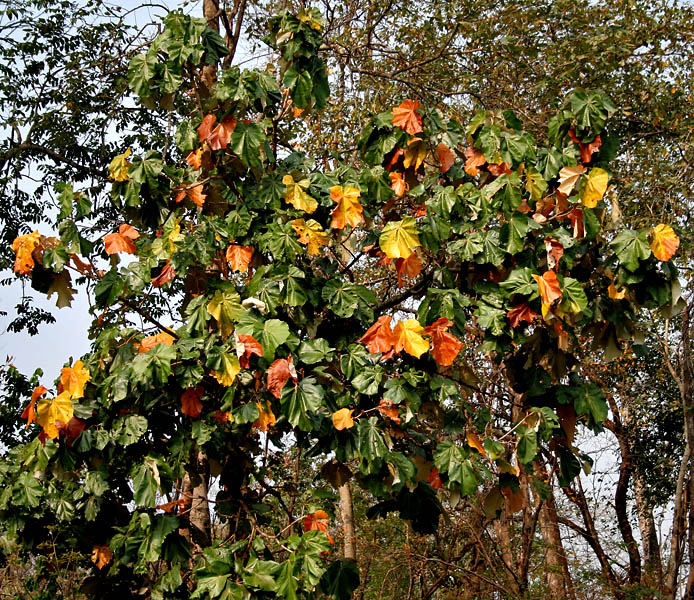 Kanak Champa Pterospermum acerifolium at Jayanti in Buxa Tiger Reserve in Jalpaiguri district of West Bengal, India.